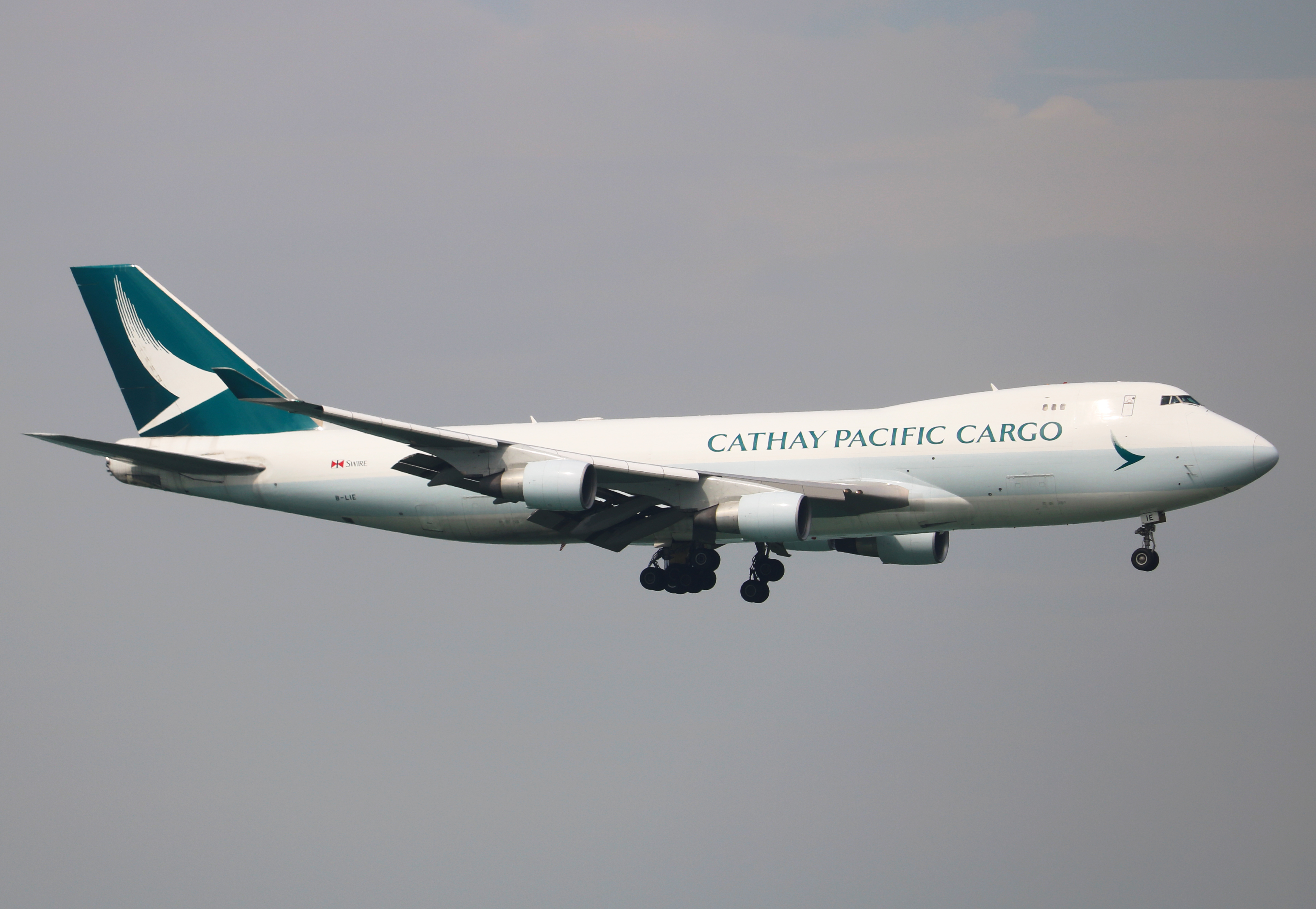 B-LIE